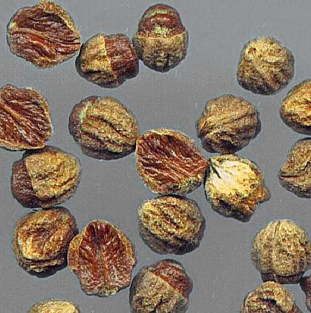 Cotoneaster multiflorus stones